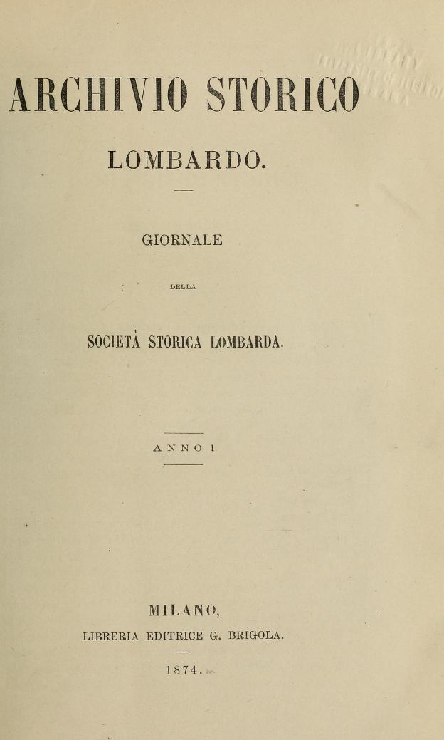 "Archivio Storico Lombardo" (Lombard Historical Archive), journal of "Società Storica Lombarda" (Lombard Historical Society), by publishing library G. Brigola , Milan 1874, year I